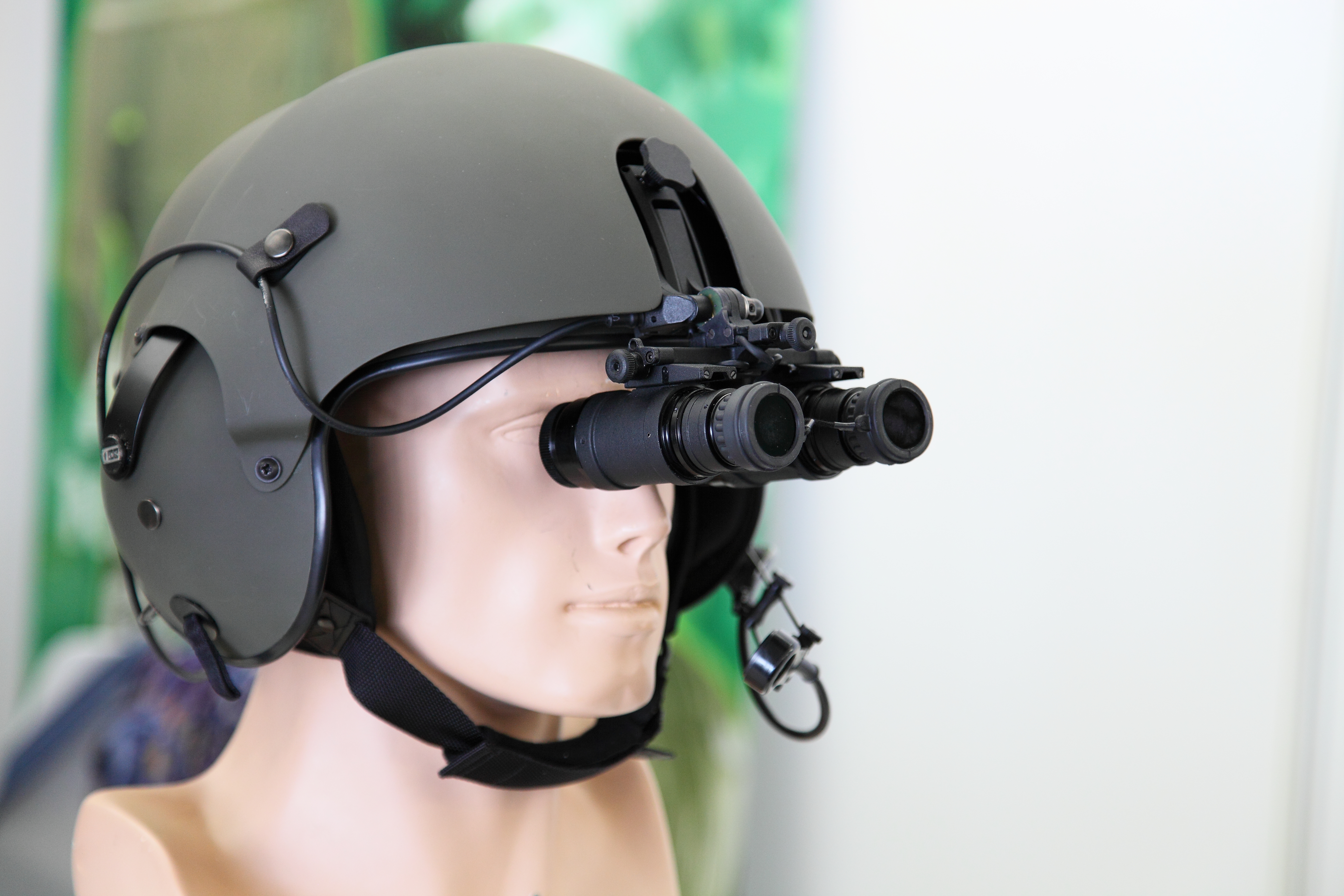 ILA Berlin Air Show 2012 ; Aviators nightvision goggles PNL-3M